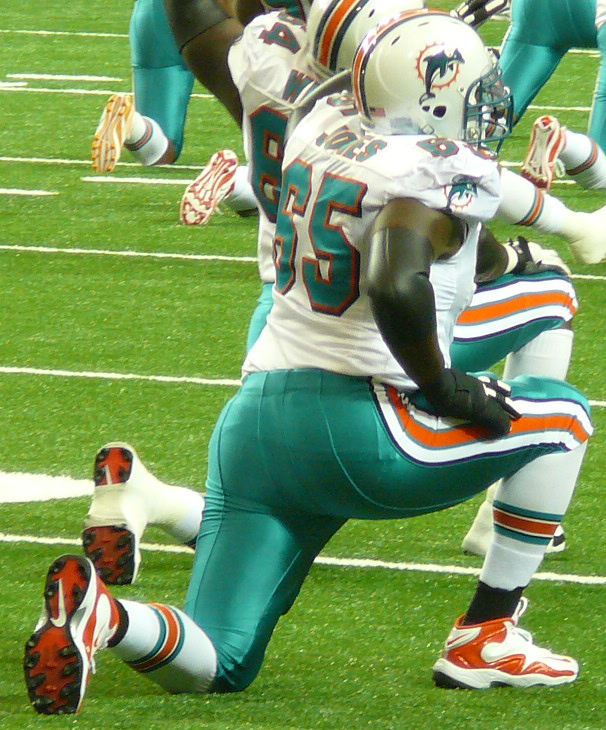 If used somewhere other than Wikipedia, Nelson, by name.